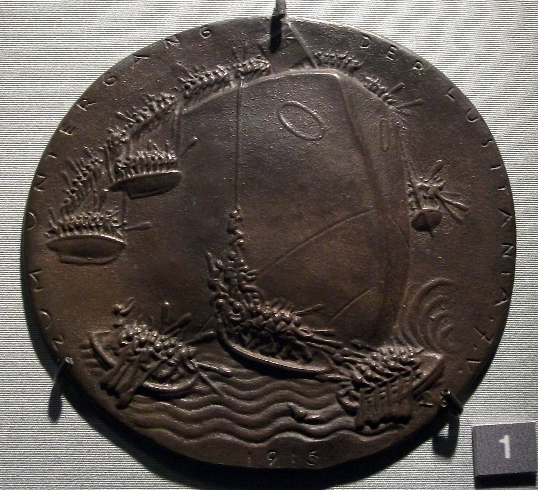 Lusitania, Ludwig Gies, Germany, 1915, British Museum exhibition: "The other side of the medal: how Germany saw the First World War", 9 May – 23 November 2014